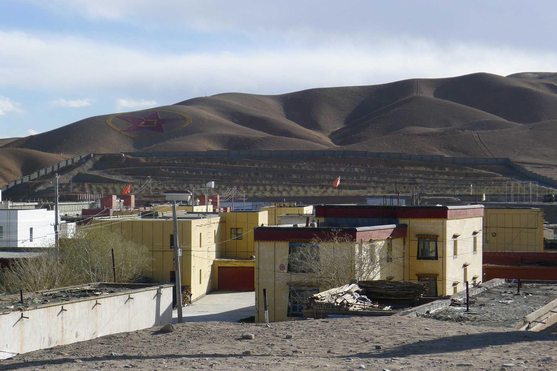 Giant PLA emblem on the hill near Shiquanhe, Gar County. August 1 is the People's Liberation Army's founding day.